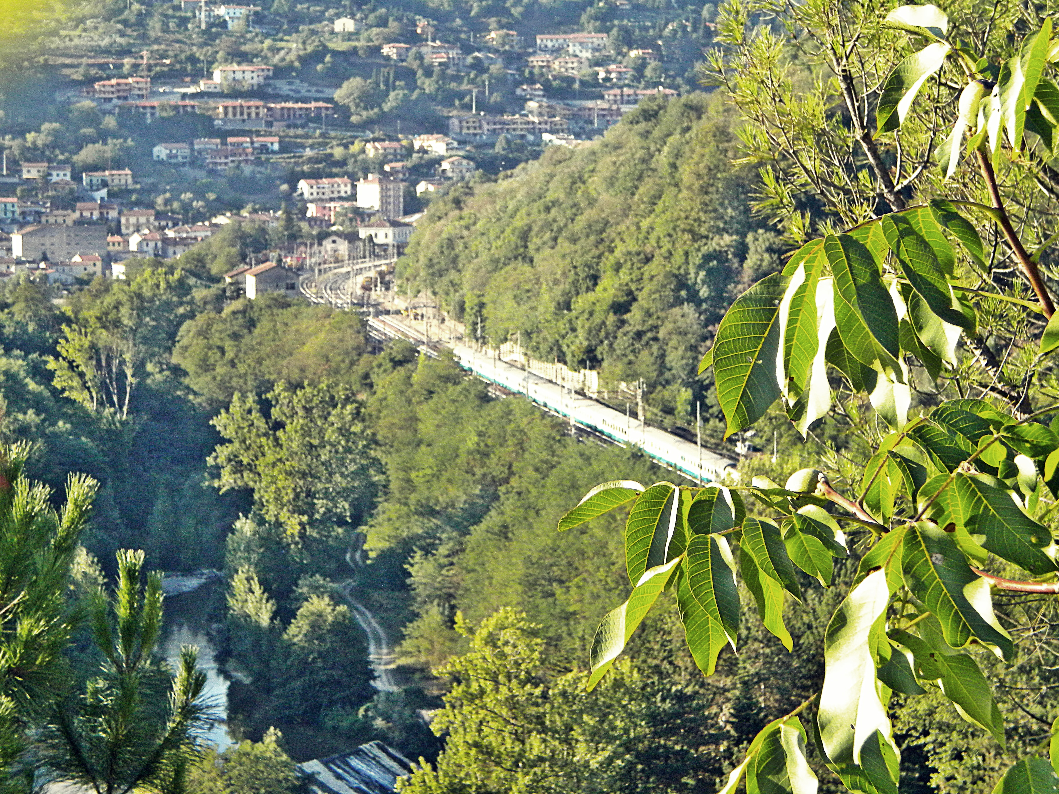 railway